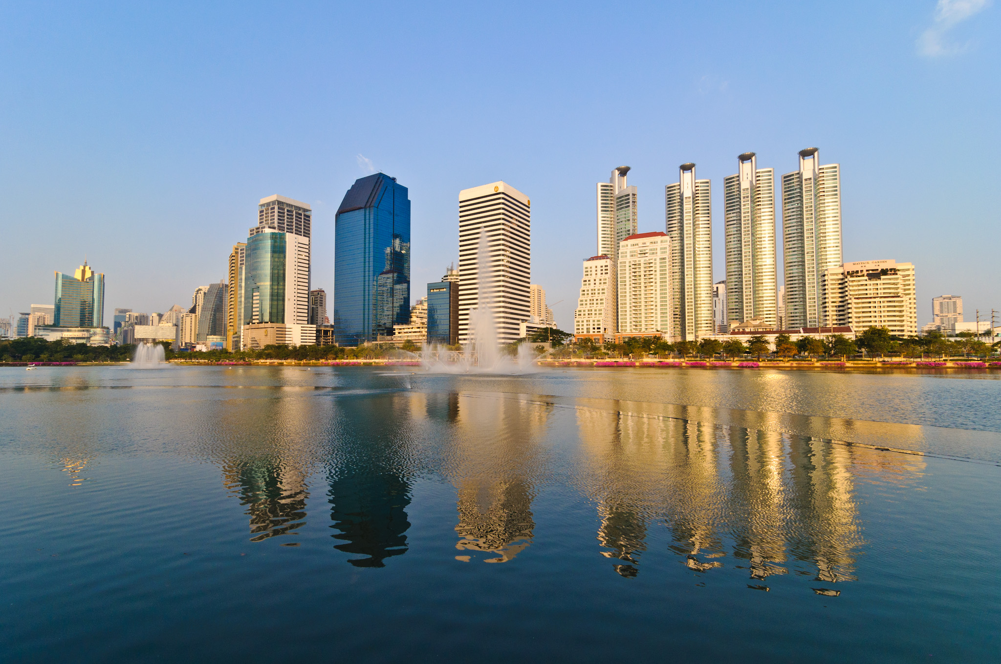 A view over Lake Ratchada towards the Asoke intersection in Bangkok. The four buildings on the right at the Millennium condominiums and the building on the far left with the gold spire is the new Centrepoint hotel at the Terminal 21 shopping center. Lake Ratchada is the centerpiece of Benjakiti Park in the Asoke area of Bangkok. Formerly used for factories and warehouses by the Thailand Tobacco Monopoly, the area is slated for redevelopment as greenspace in the middle of the Thai capital.